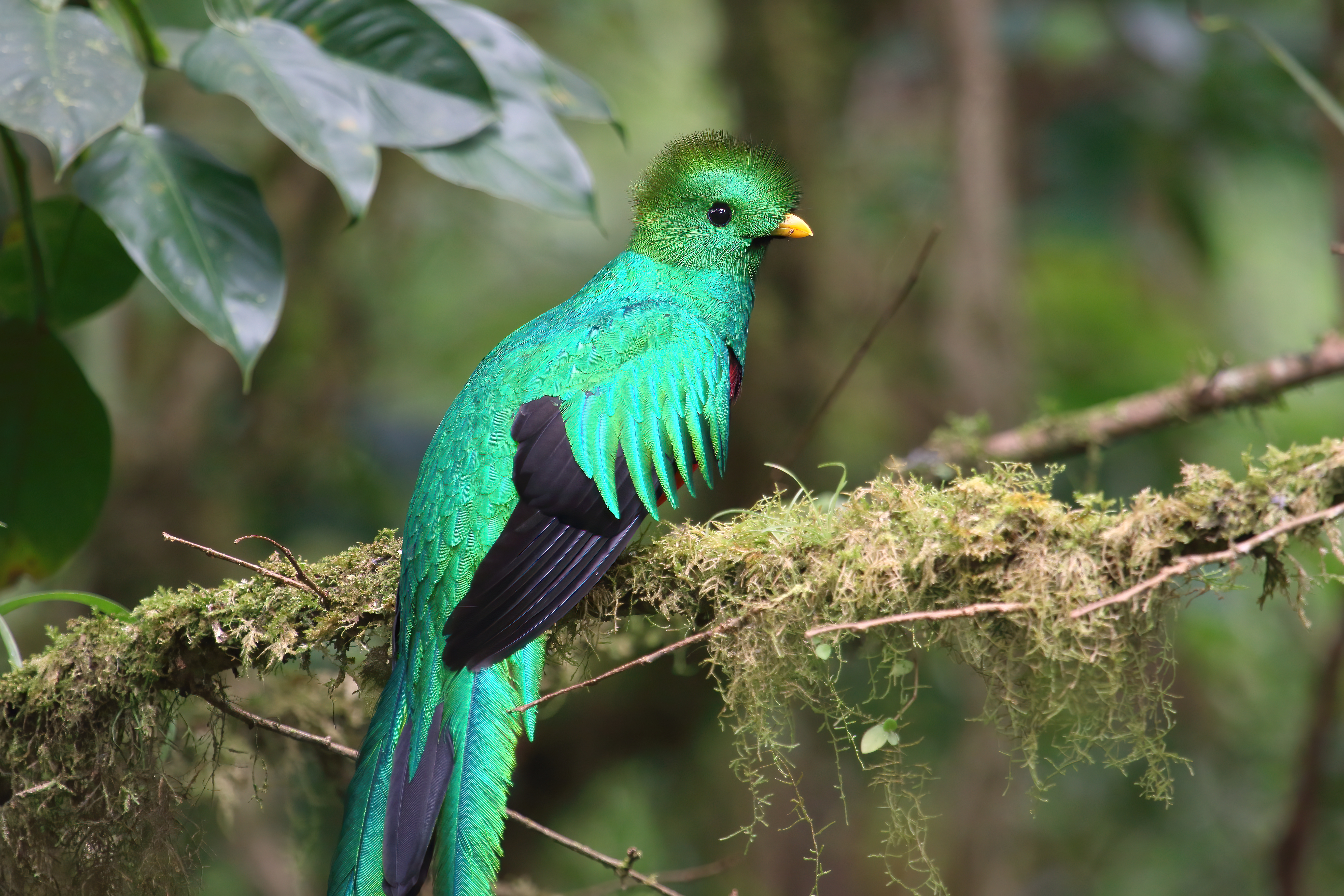 Resplendent quetzal, Monteverde, Costa Rica